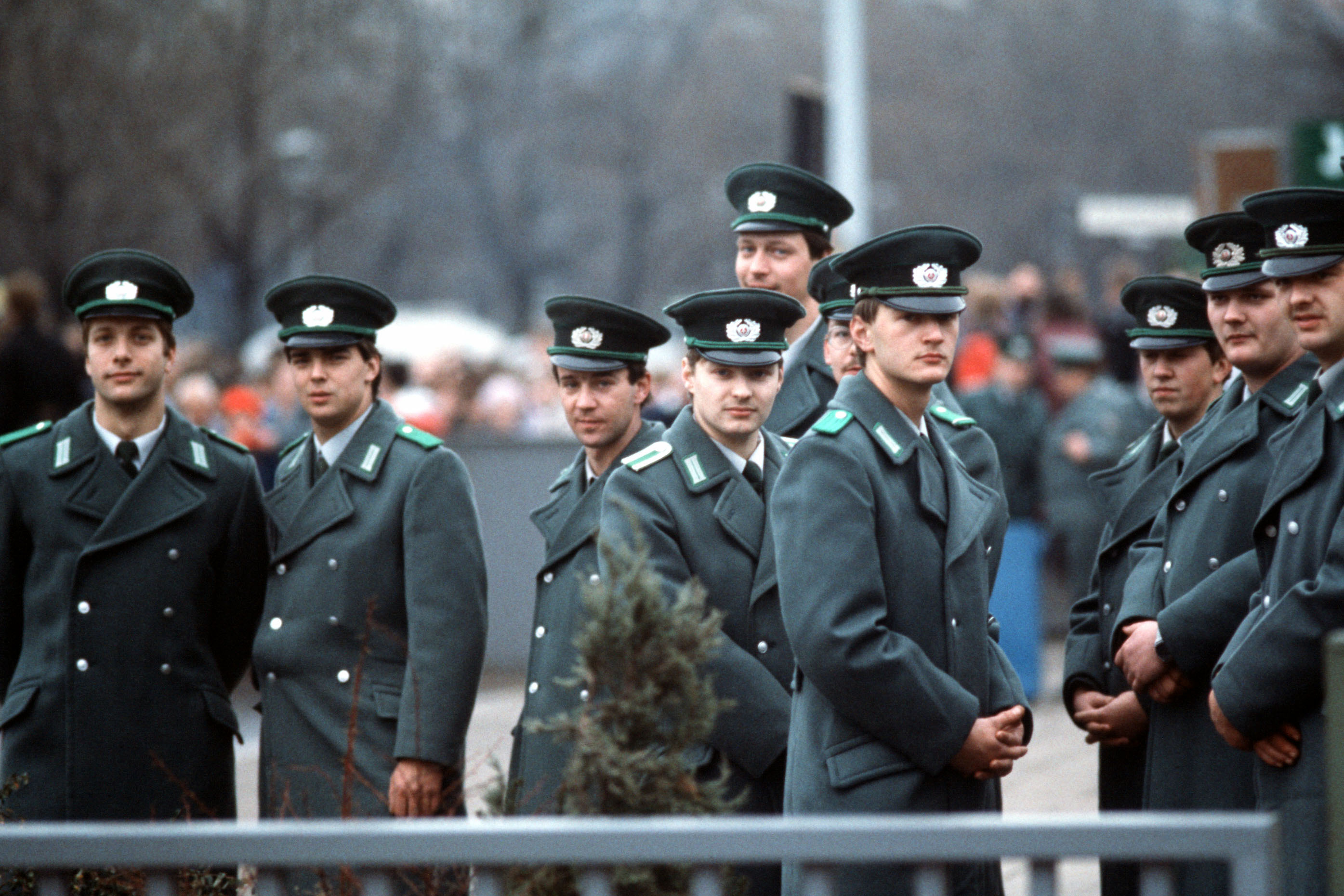 East German guards wait for the official opening of the Brandenburg Gate.